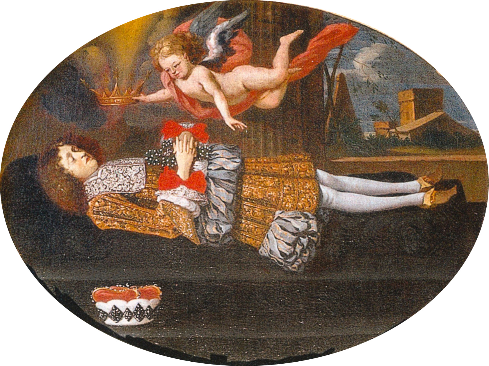 Herzog Wilhelm Ludwig (1647-1677) on his deathbed